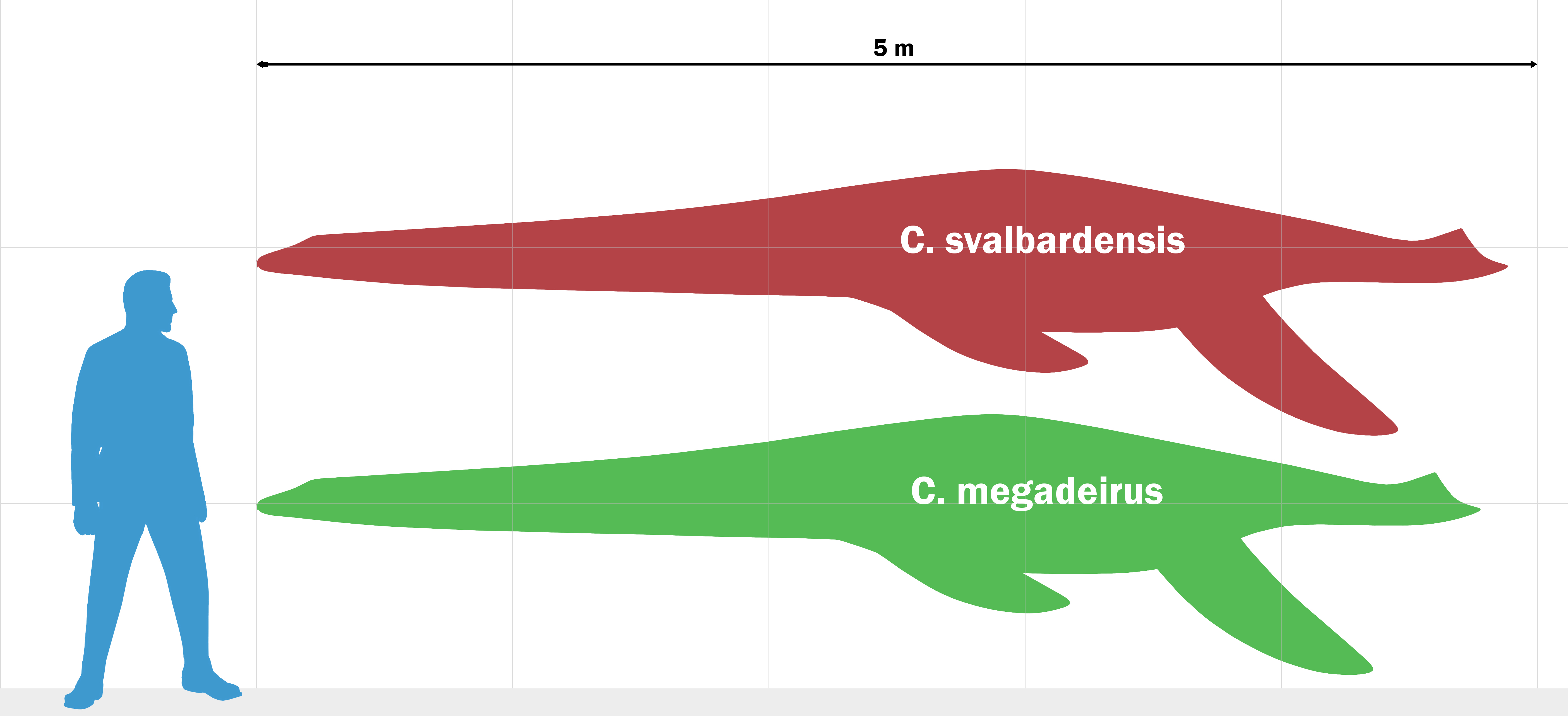 A scale chart of two specimens representing both of the species under Colymbosaurus. (C.megadeirus = CAMSM J.63919 , C.svalbardensis = PMO 216.838) Vertebral count based on Benson (2014). Silhouette based on human from (CC-0 [1]))